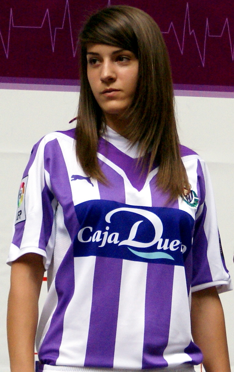 Laura María Fernández Borge, player of women's Real Valladolid team.